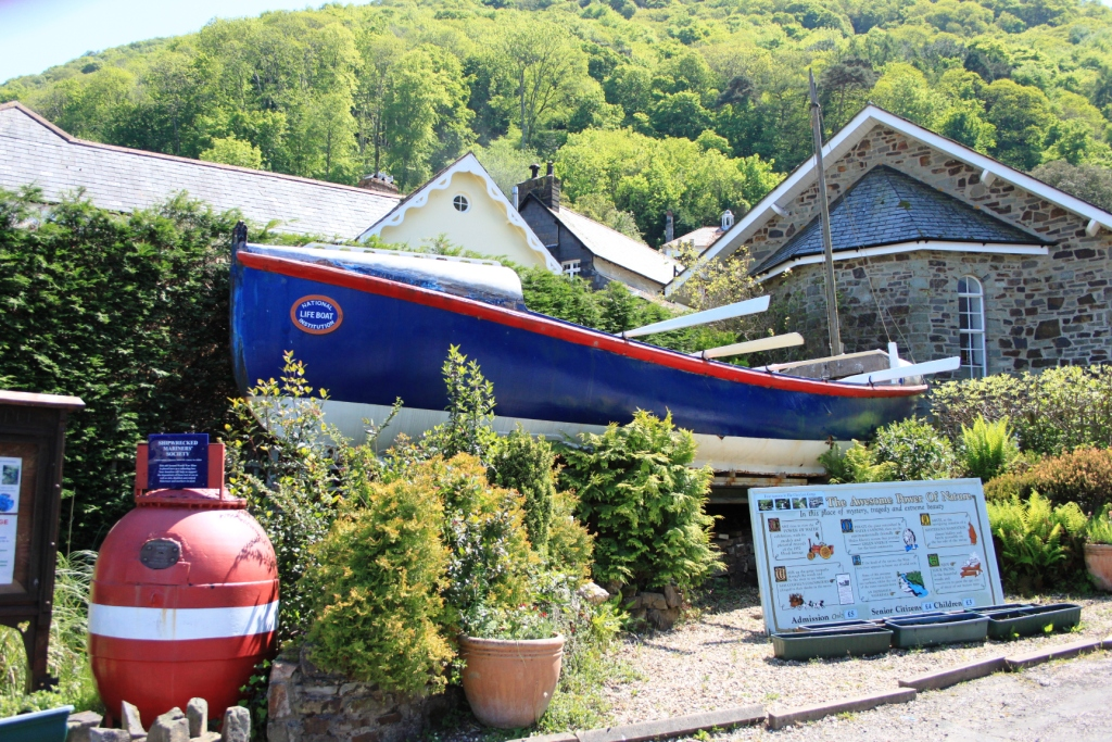 The former lifeboat 'Docea Chapman' on display at Lynmouth in Devon, England. It was built in 1911 for Withernsea Lifeboat Station. In 1913 it was transferred to Easington where it worked until 1933. After five years in the RNLI's reserve fleet it was transferred to the Hawker's Cove station at Padstow in 1938. It was withdrawn from service the following year.